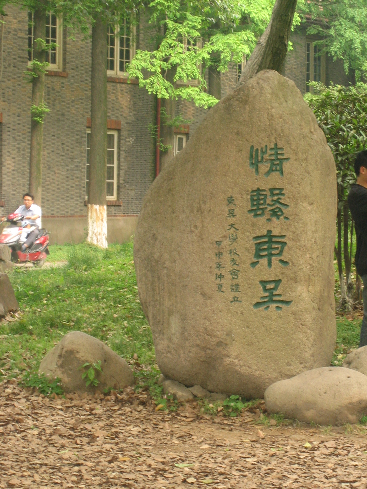 QingXiDongWu at Old SooChow Univ in Suzhou